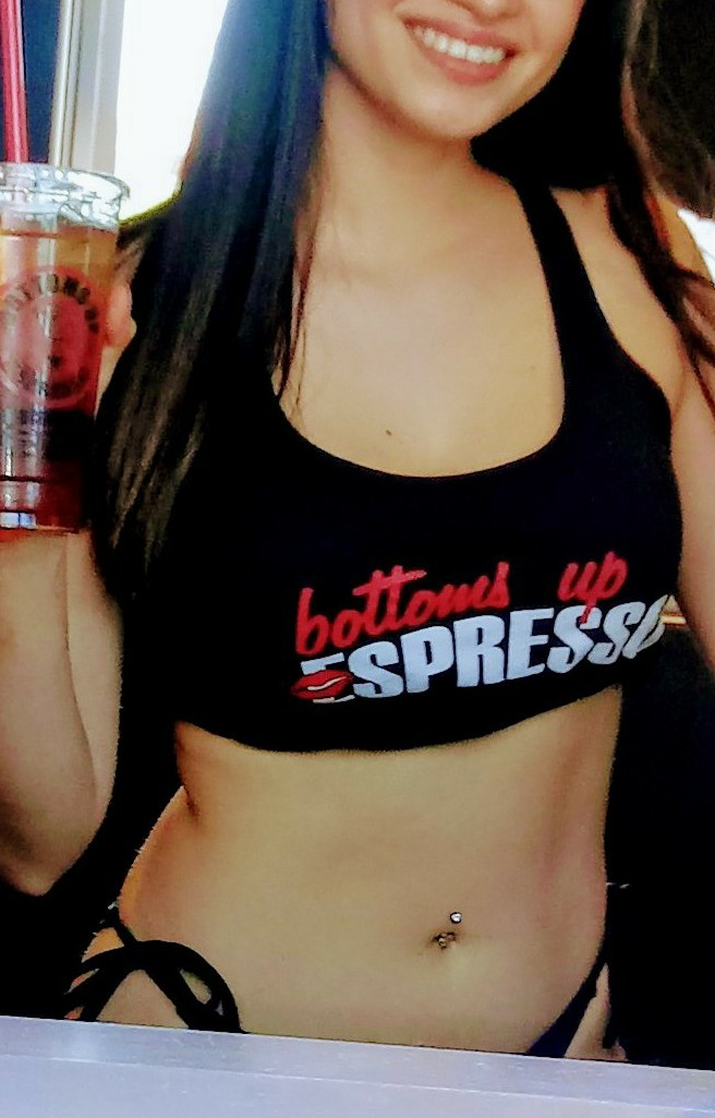 A cropped digital photo of a bikini barista from a drive-thru of Bottoms Up Expresso in Clovis, Ca.